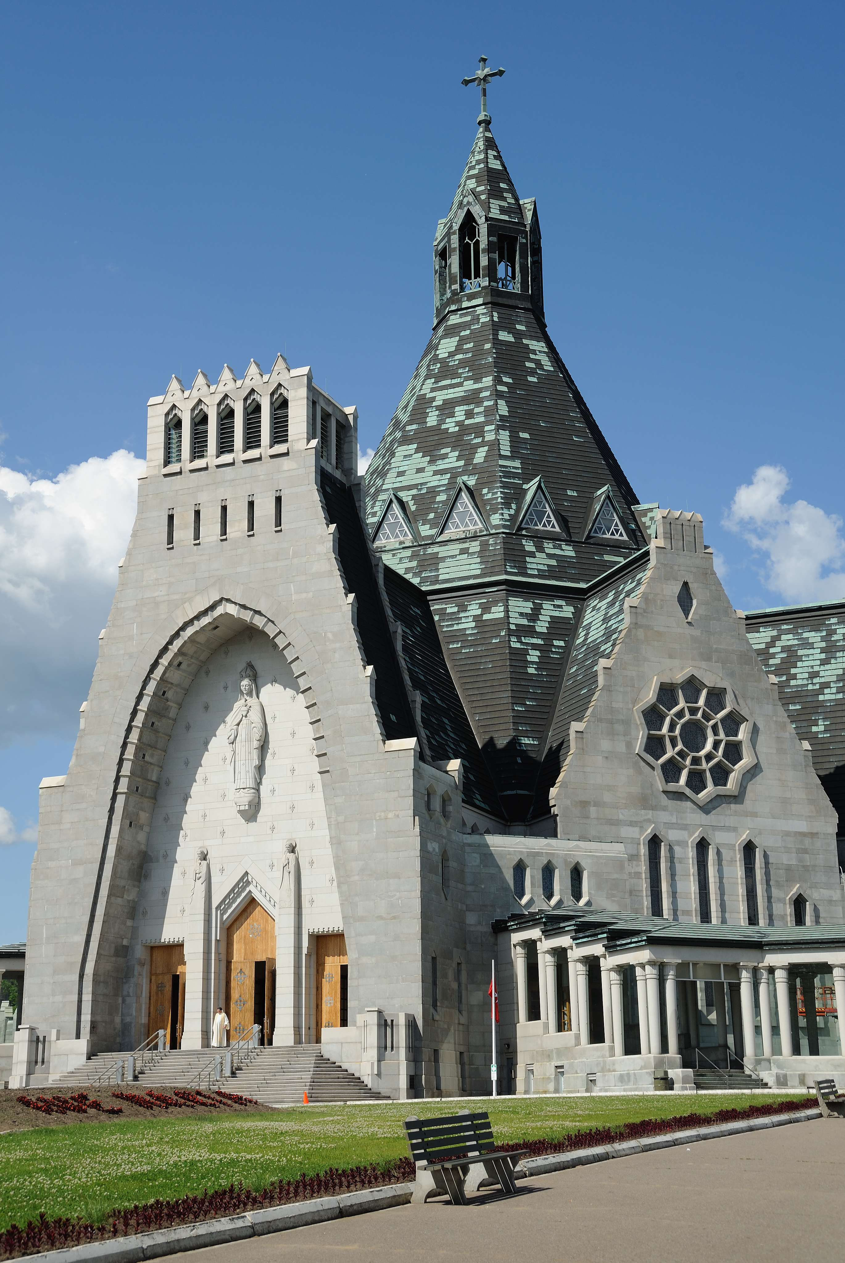 Basilique Notre-Dame du Cap, dedicated to the Virgin Mary (City of Trois-Rivières, Québec, Canada). A priest can be seen at the entrance.